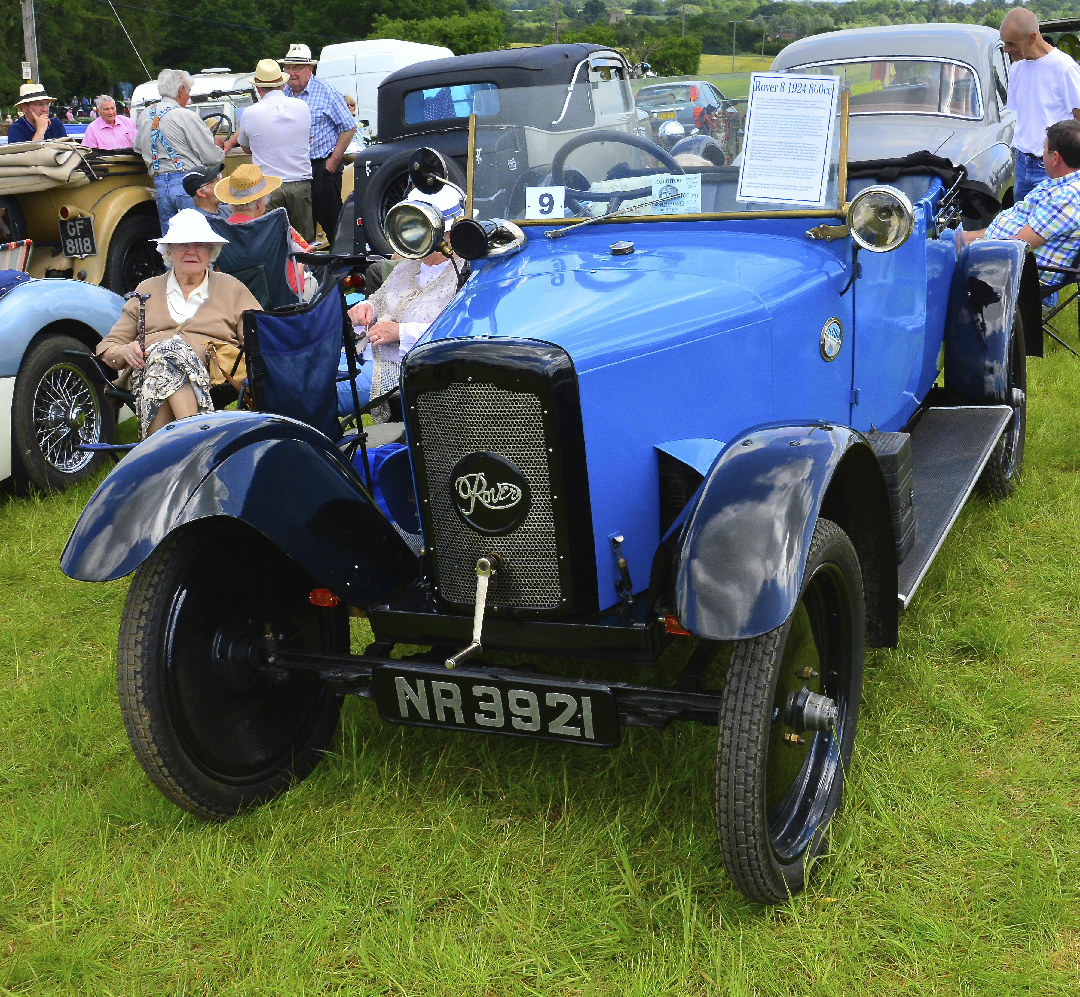 1924 Rover 8(DVLA) first registered 12 March 1924, 1056 ccWoolpit Steam Rally, Classic Cars